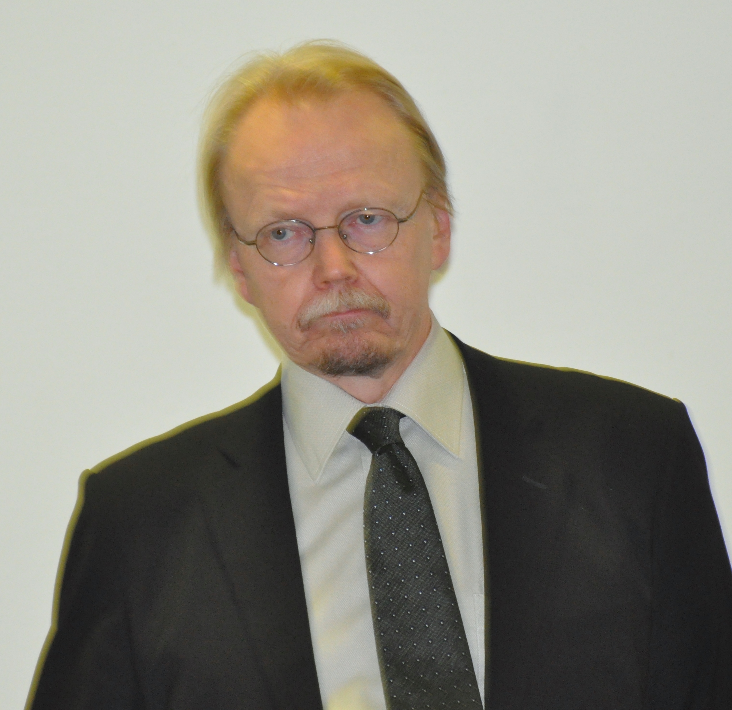 Archbishop of the Evangelical Lutheran Church of Finland Kari Mäkinen at the Turku Main Library, 2010.